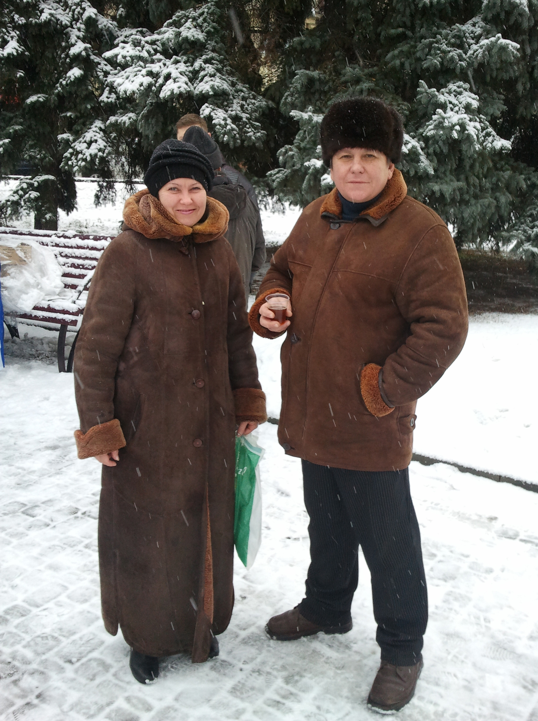 People of Harkov oblast, Ukraine. Српски (ћирилица): Харковчани зимом, Украјина.